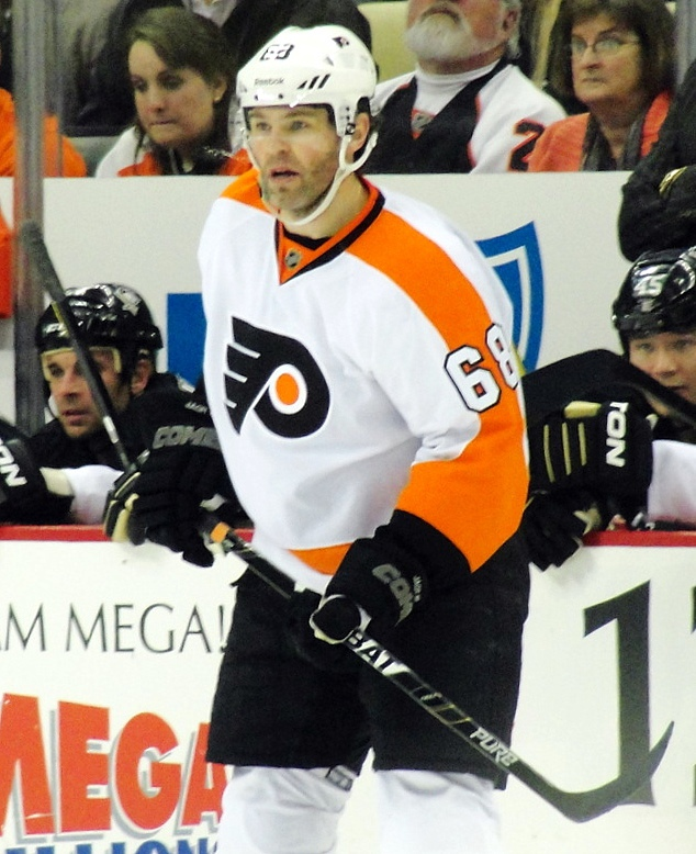 Jaromir Jagr of the Philadelphia Flyers during a December 29, 2011 game against the Pittsburgh Penguins at Consol Energy Center in Pittsburgh, PA. It was Jagr's first trip to Pittsburgh as a member of the Flyers.